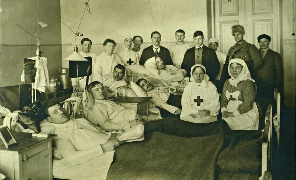 Red Cross hospital in Vyborg during the 1918 Finnish Civil War. Red Guards members wounded in the Battle of Kämärä, 27 January. The patient lying down in the back is the Red leader Jukka Rahja with Social Democrats Arthur Hellman and Martti Lainio standing behind him. Military person is the Vyborg Red Guard commander Heikki Kaljunen.